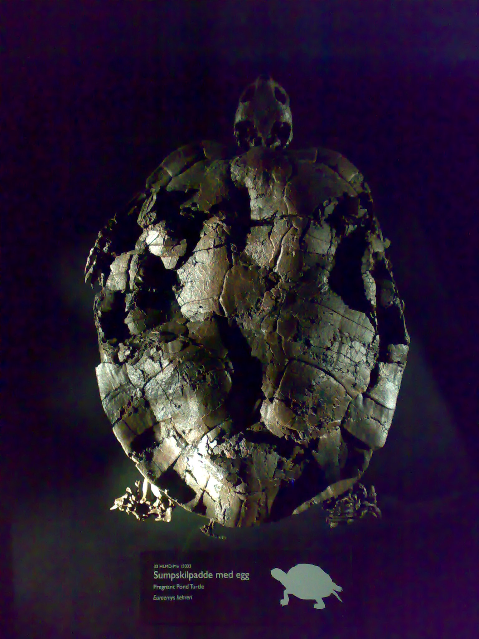 Messel Germany, ancient turtle (Euroemys kehreri), Oslo Zoological Museum